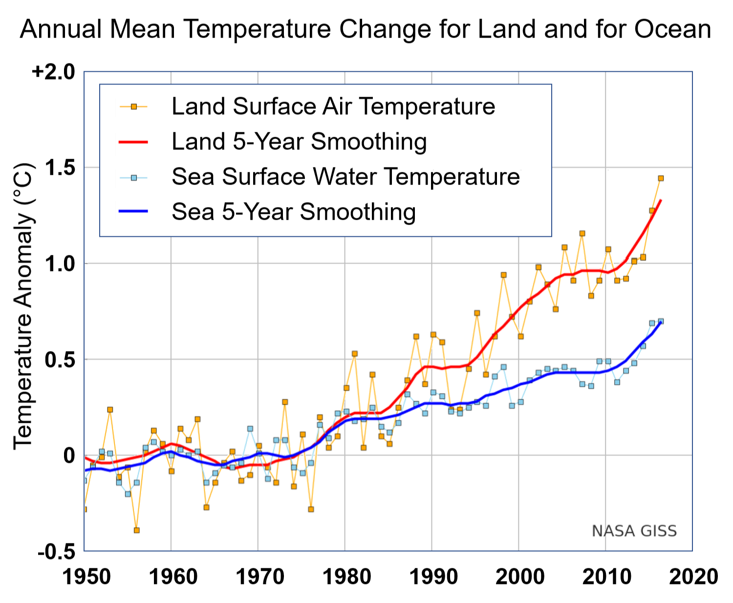 Annual (thin lines) and five-year lowess smooth (thick lines) for the temperature anomalies averaged over the Earth’s land area and sea surface temperature anomalies averaged over the part of the ocean that is free of ice at all times (open ocean).